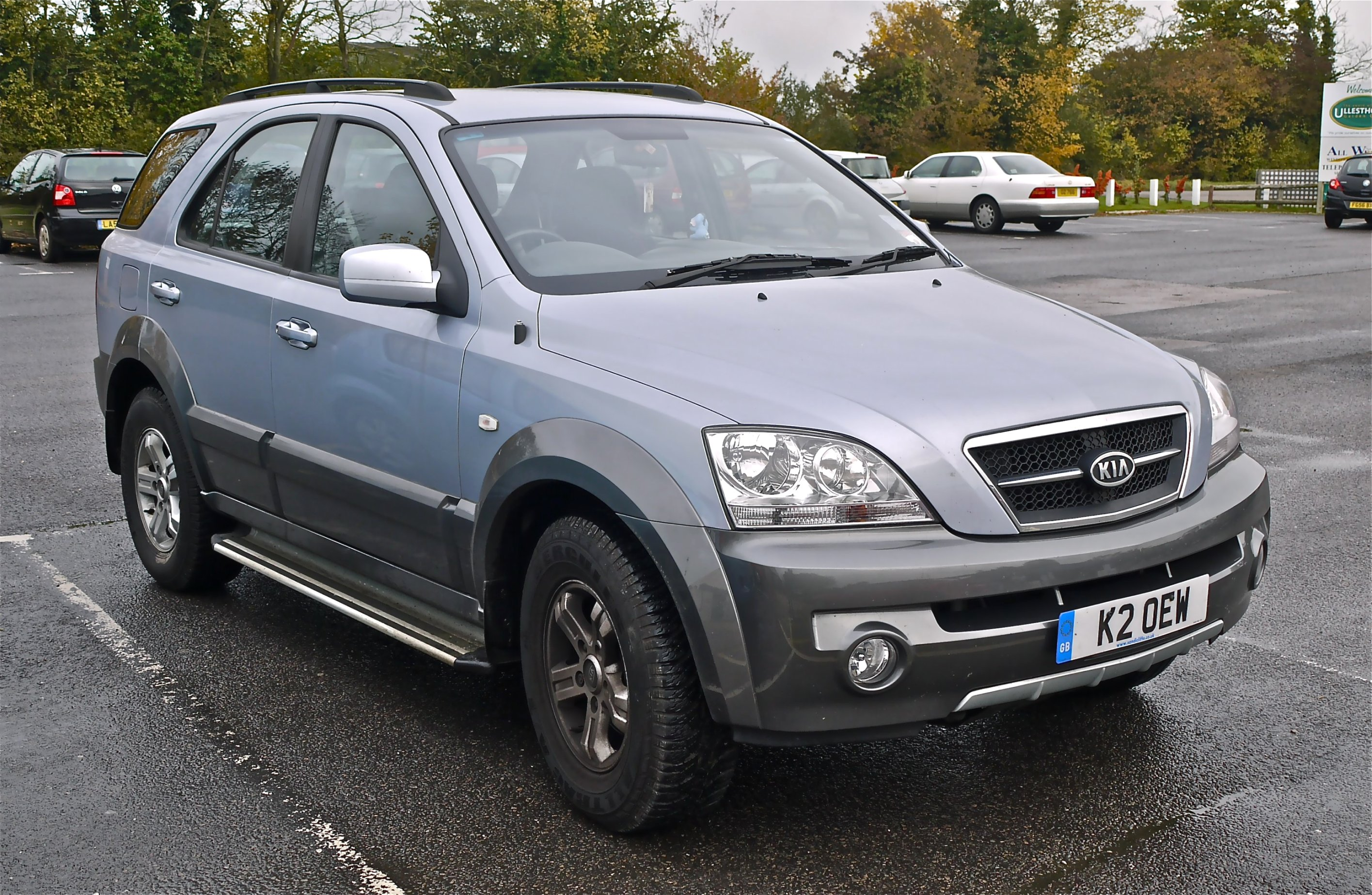 A grey winters day, flat dull horrible light, roll on spring time ! Panasonic G1 14-45 Lens